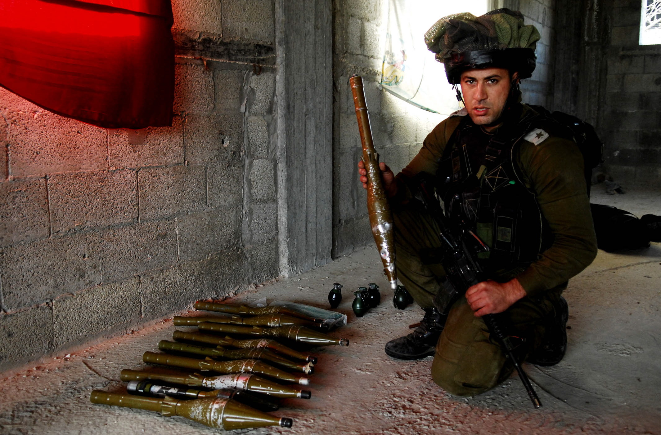 March 2, 2008 During a Givati and Armored Corps joint operation in the northern Gaza Strip, the IDF forces found many weapons inside a mosque. The weapons included an explosive device that could be activated by phone, coils for an explosive, a mortar bomb, hand grenades, and cartridges. This is yet another example of the intentional use of holy sites, civilian centers, and buildings by terror organizations fighting Israel.